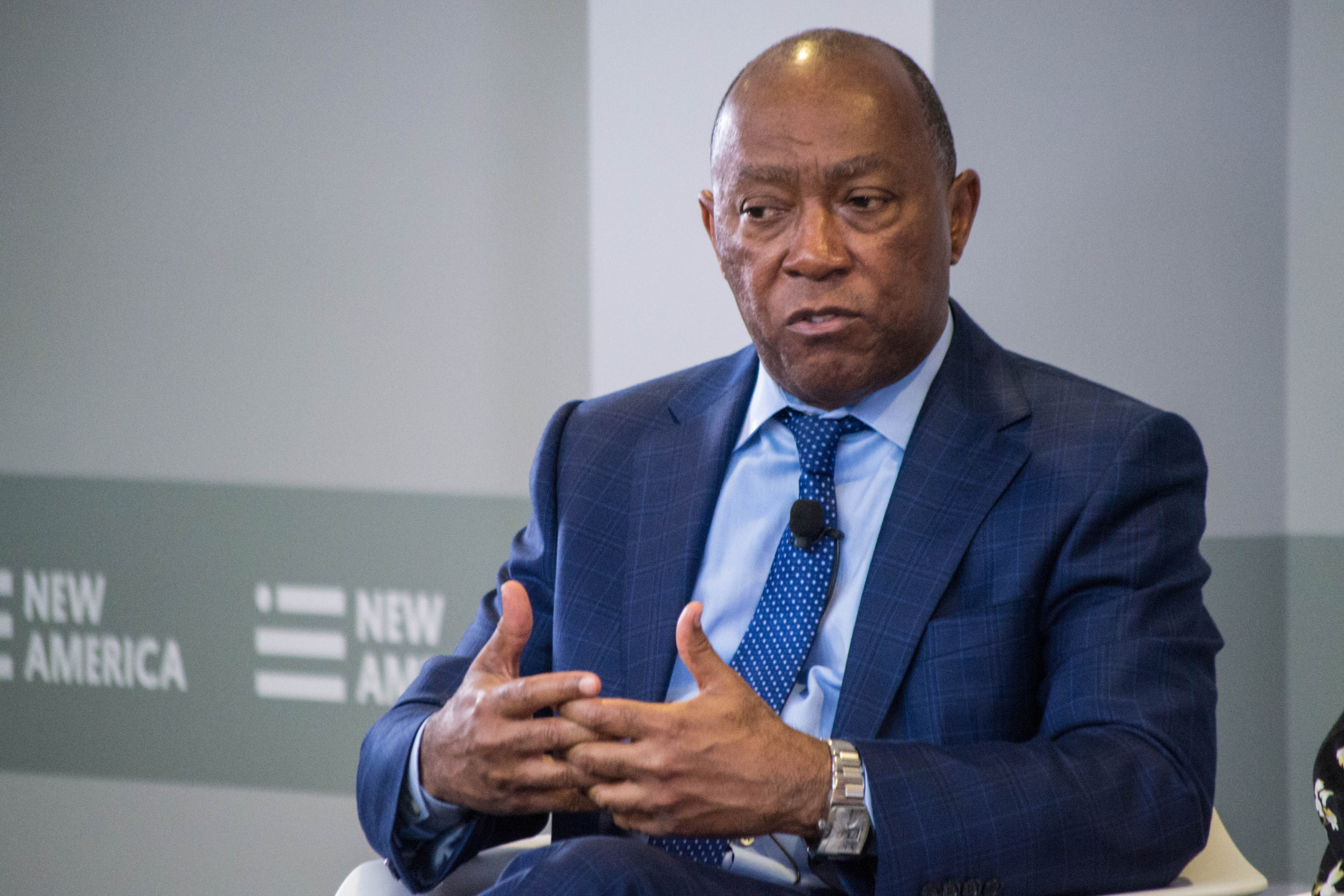 Mayor Sylvester Turner, City of Houston